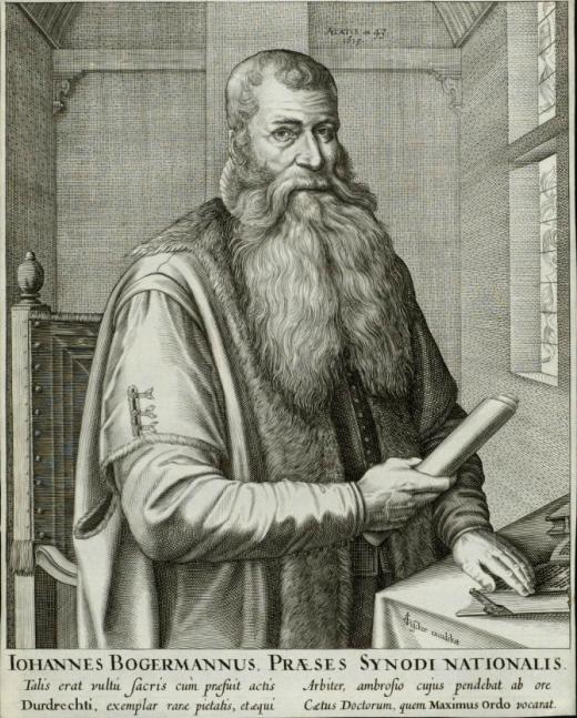 portrait of the preacher Johannes Bogerman Iohannes Bogermannus, præses synodi nationalis Ætatis an 43. 1619 Talis erat vultú sacrís cùm præfuit actis Durdrechti, exemplar raræ pietatis, et æquí Arbiter, ambrosio cujus pendebat ab ore Cætus Doctorum, quem Maximus Ordo vocarat.